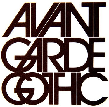 logos